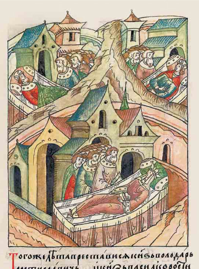 Deaths of Volodar Rostislavich, Vasilko Rostislavich and wife of Yaropolk (1124)